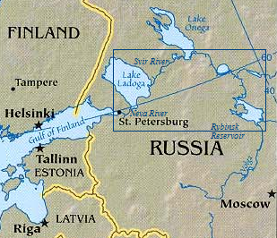 Volga-Baltic Waterway